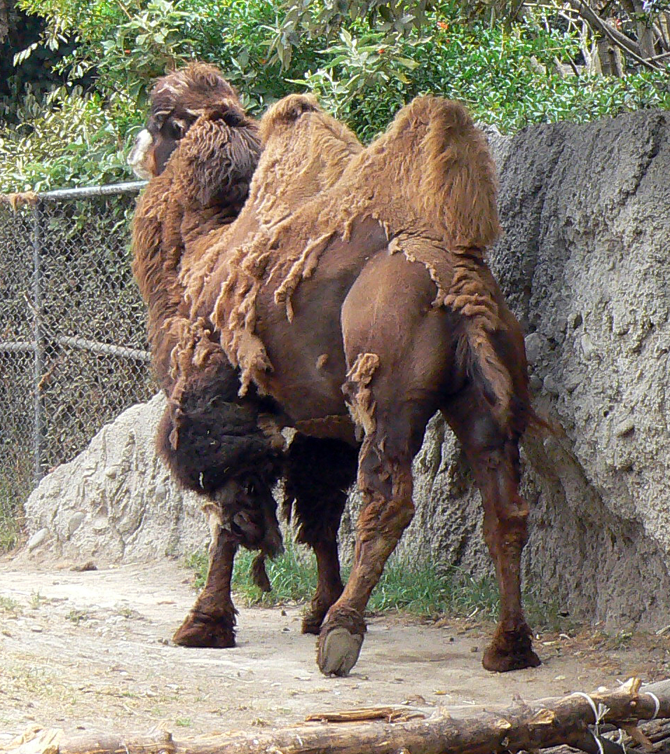 Camelus bactrianus in mexico city zoo